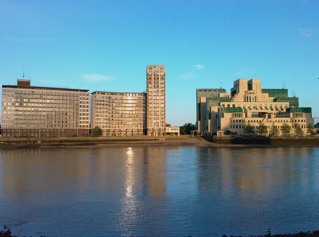 Albert Embankment View from Millbank looking across the Thames to the South end of Albert Embankment and the MI6 building.